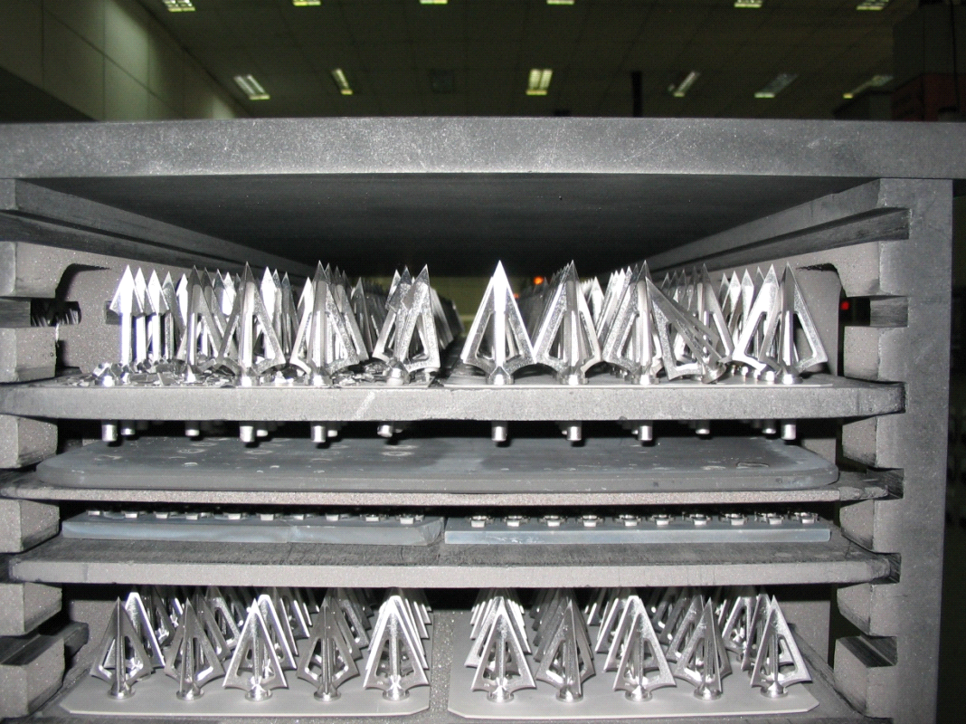 Finished sintered goods